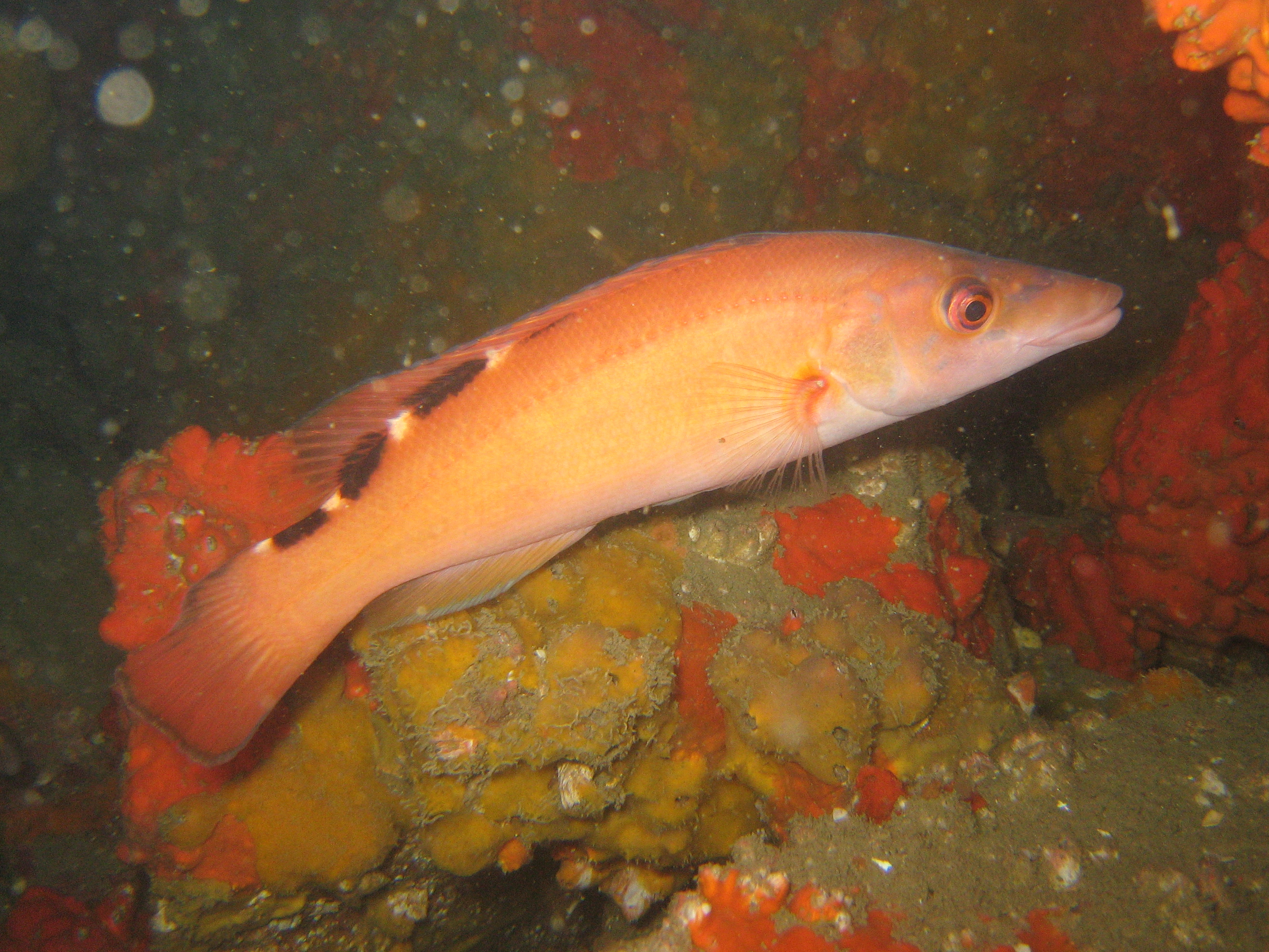 Female Labrus mixtus in Carantec.